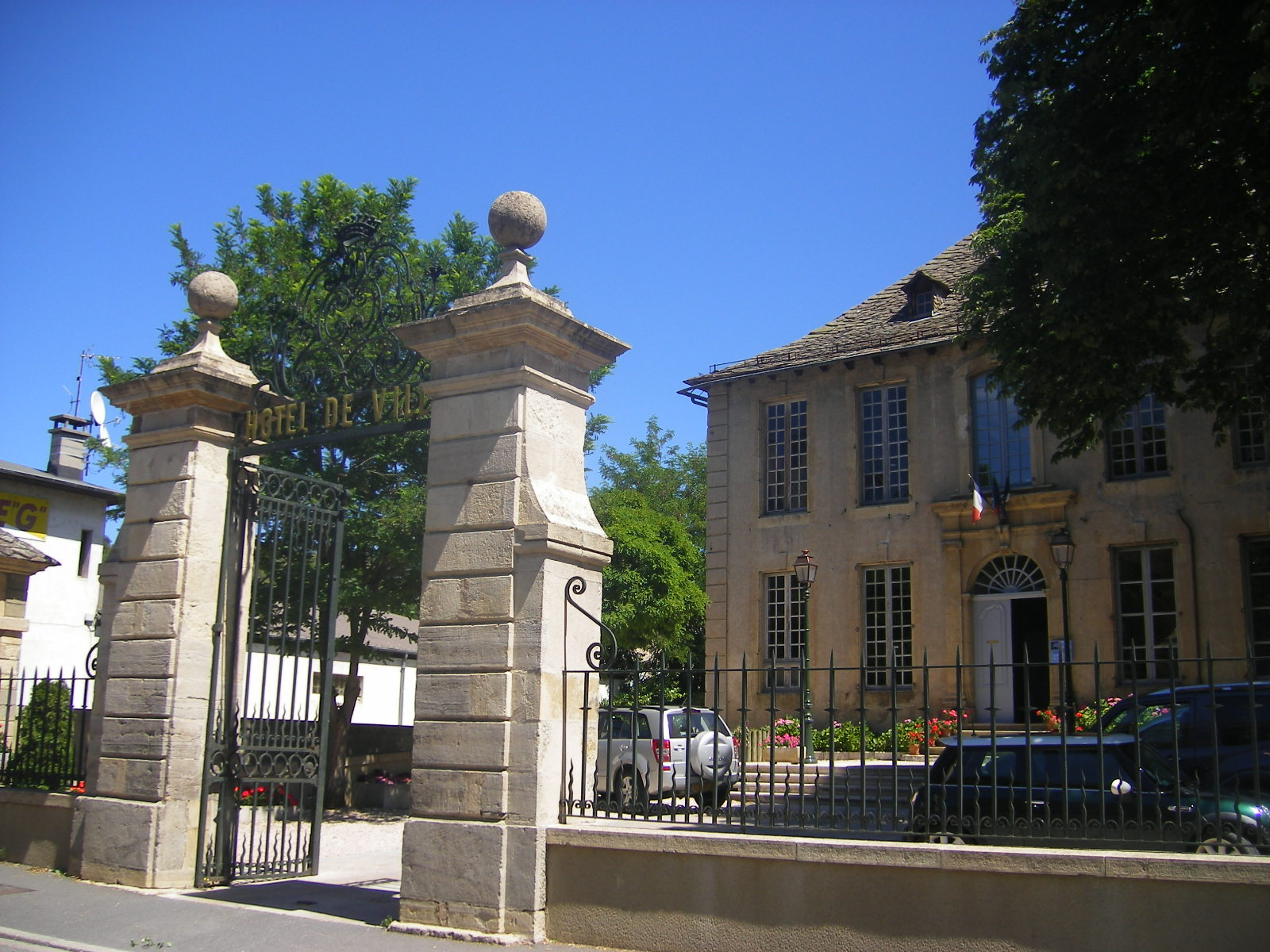 Marvejols - Town hall